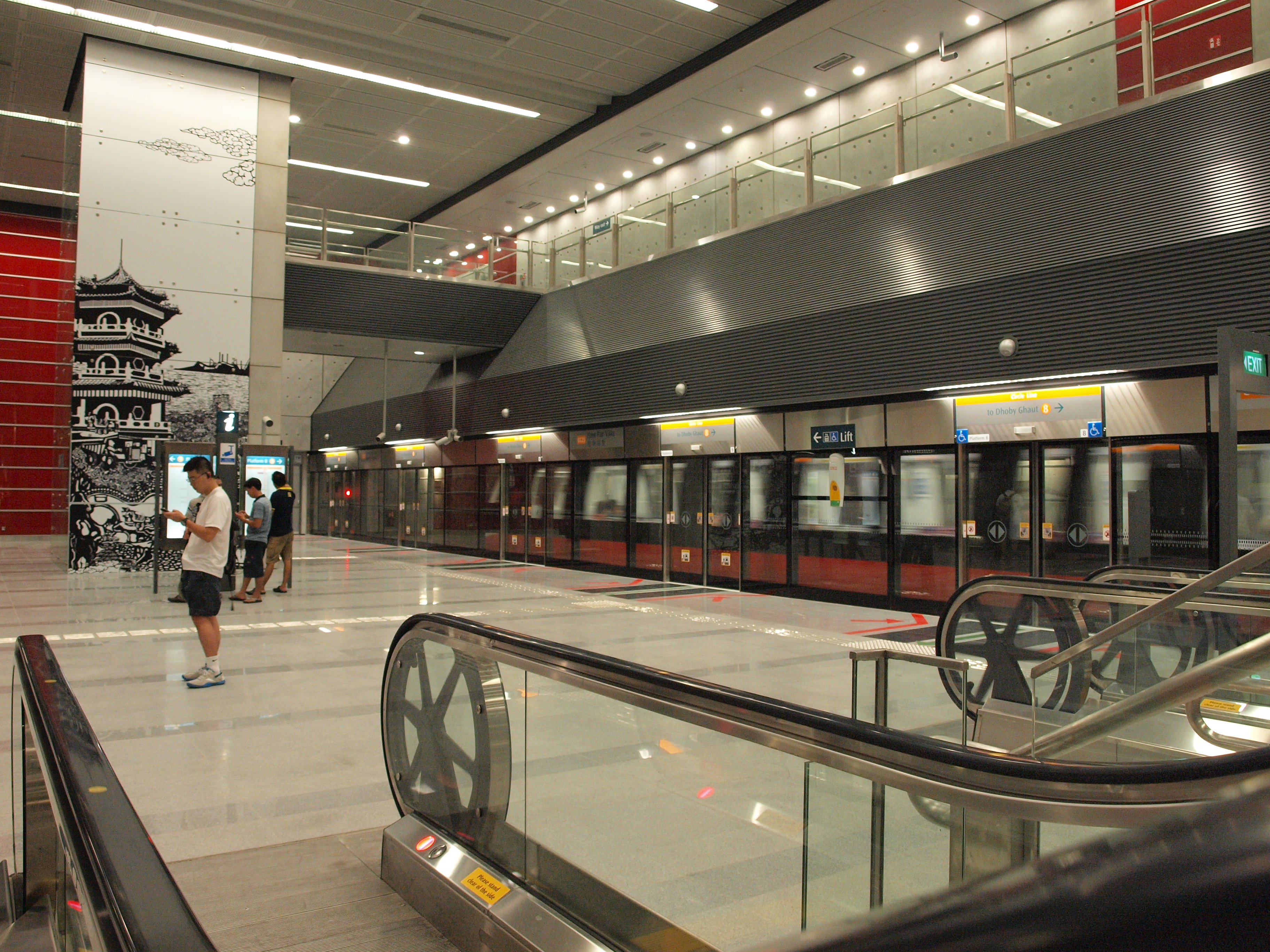 platform level